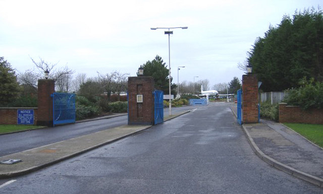 RAF Lyneham The main entrance to this sprawling airbase. For many years it has been the home to a fleet of RAF Hercules transport aircraft. However, they will soon be moving elsewhere and the future of the airbase remains uncertain.